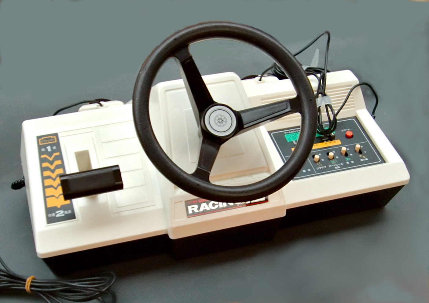 This is the Color TV Racing 112 console from Nintendo. It's a first generation console produced in 1978.